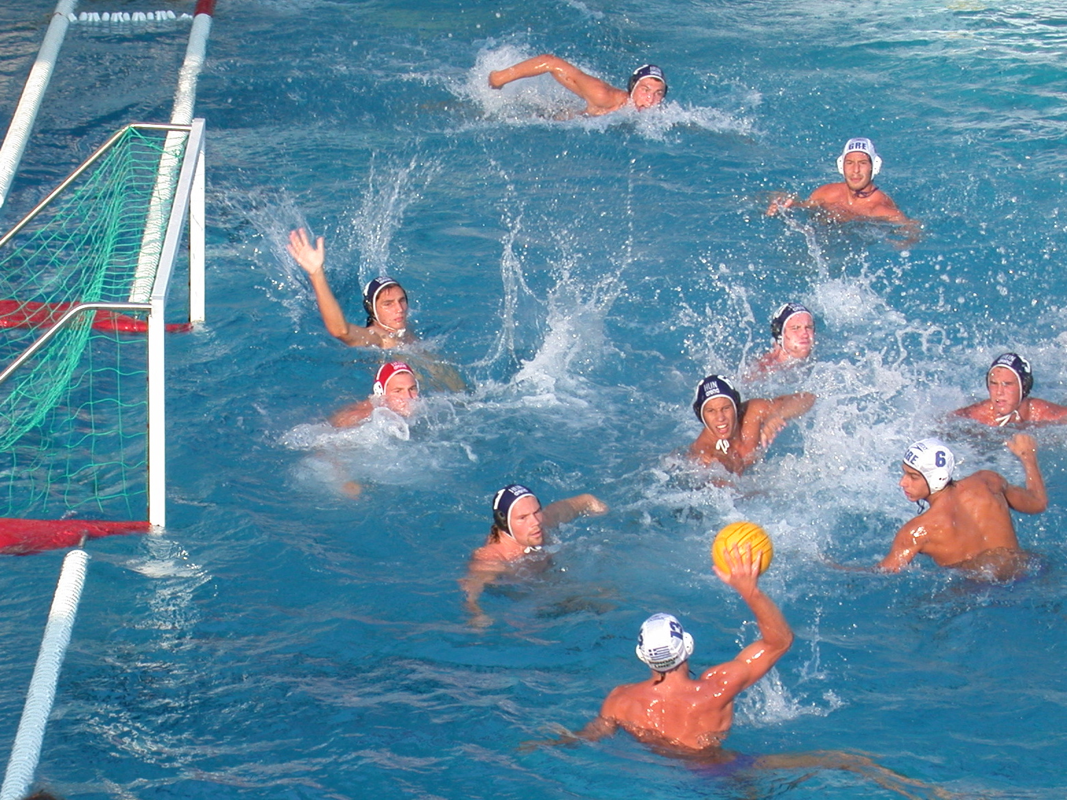 Greece - Hungary WaterPolo match (World Junior Championship 2004 Naples, Italy)